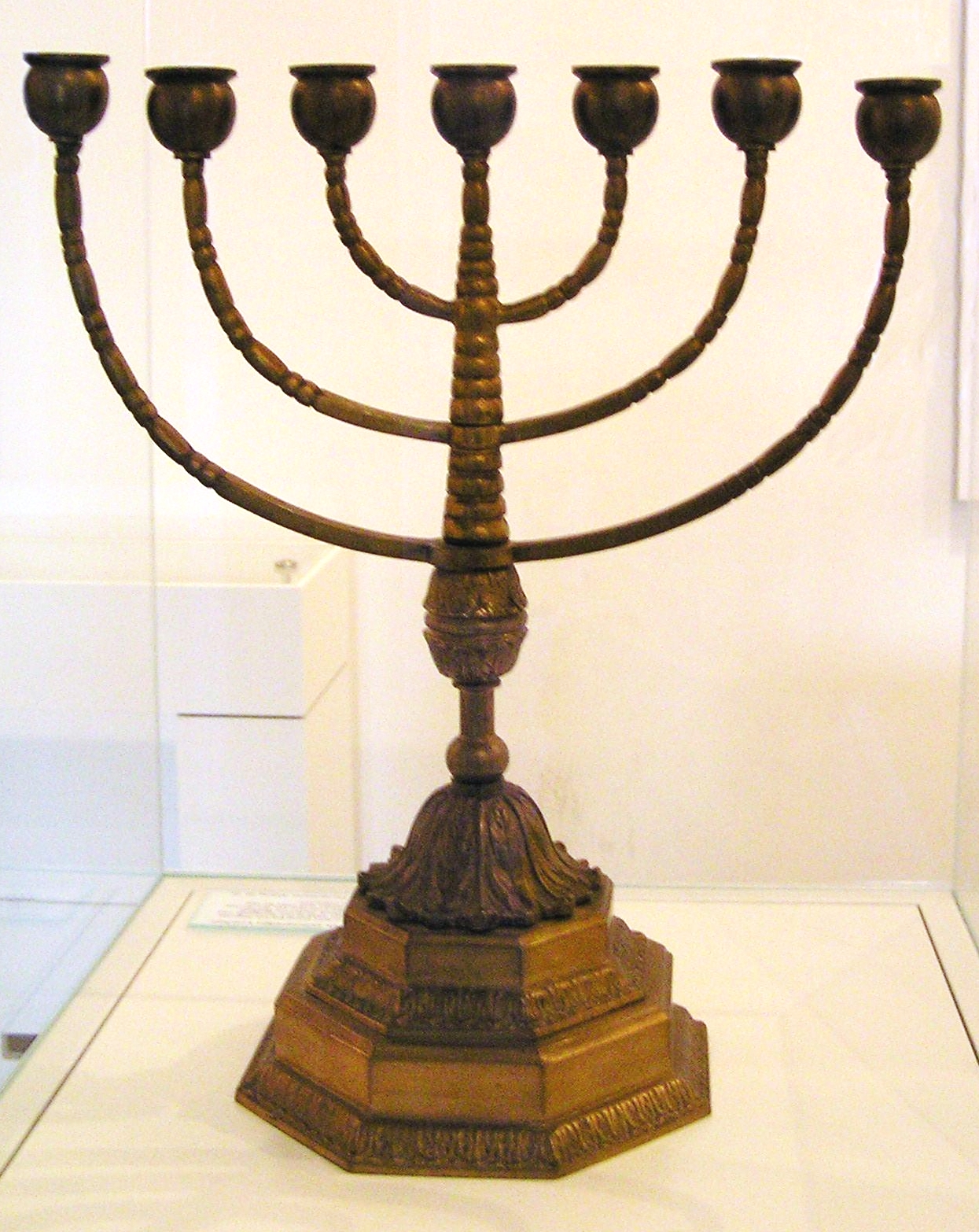 Bronze menora, once used in the synagoge Moers. Part of the exhibition in the Jewish Museum Westphalia, Dorsten, Germany